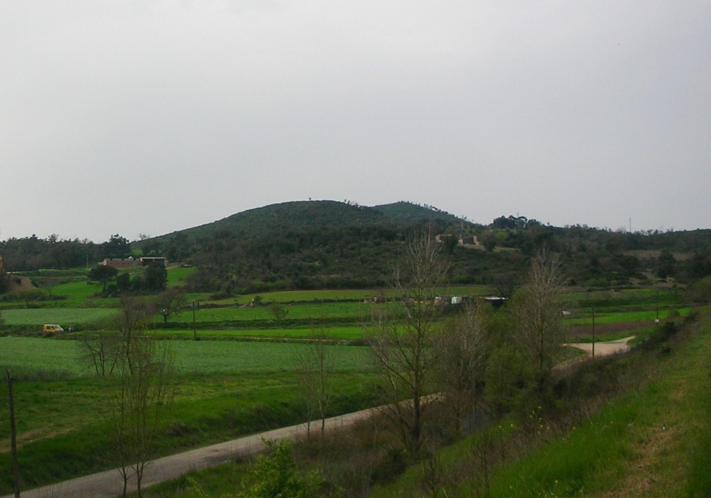 Turó de la Dona Morta (Dead Woman's Hill) near Maçanet de la Selva